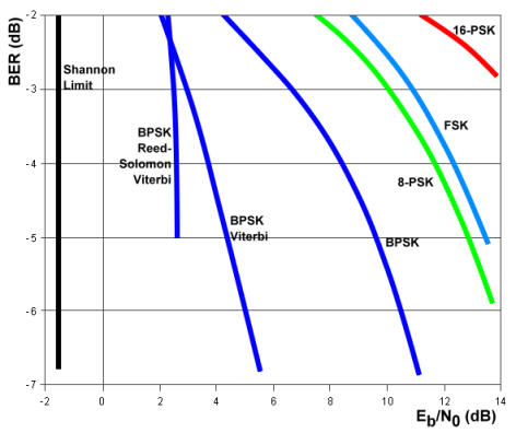 Bit error rate depening on Eb/N0 (Bitenergy over spectral noise power) for differend codings.